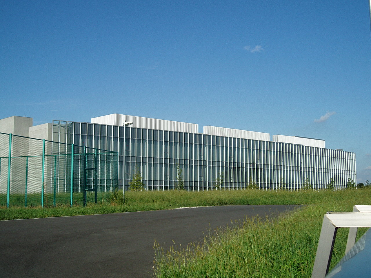 Building #5 at Toyo University Itakura Campus, located in Itakura Town, Gunma Prefecture, Japan, viewed from the West Gate